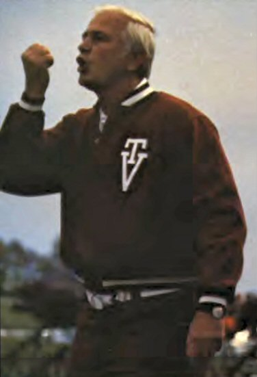 Tom Harper, defensive coordinator for the Virignia Tech Hokies football team under Bill Dooley.